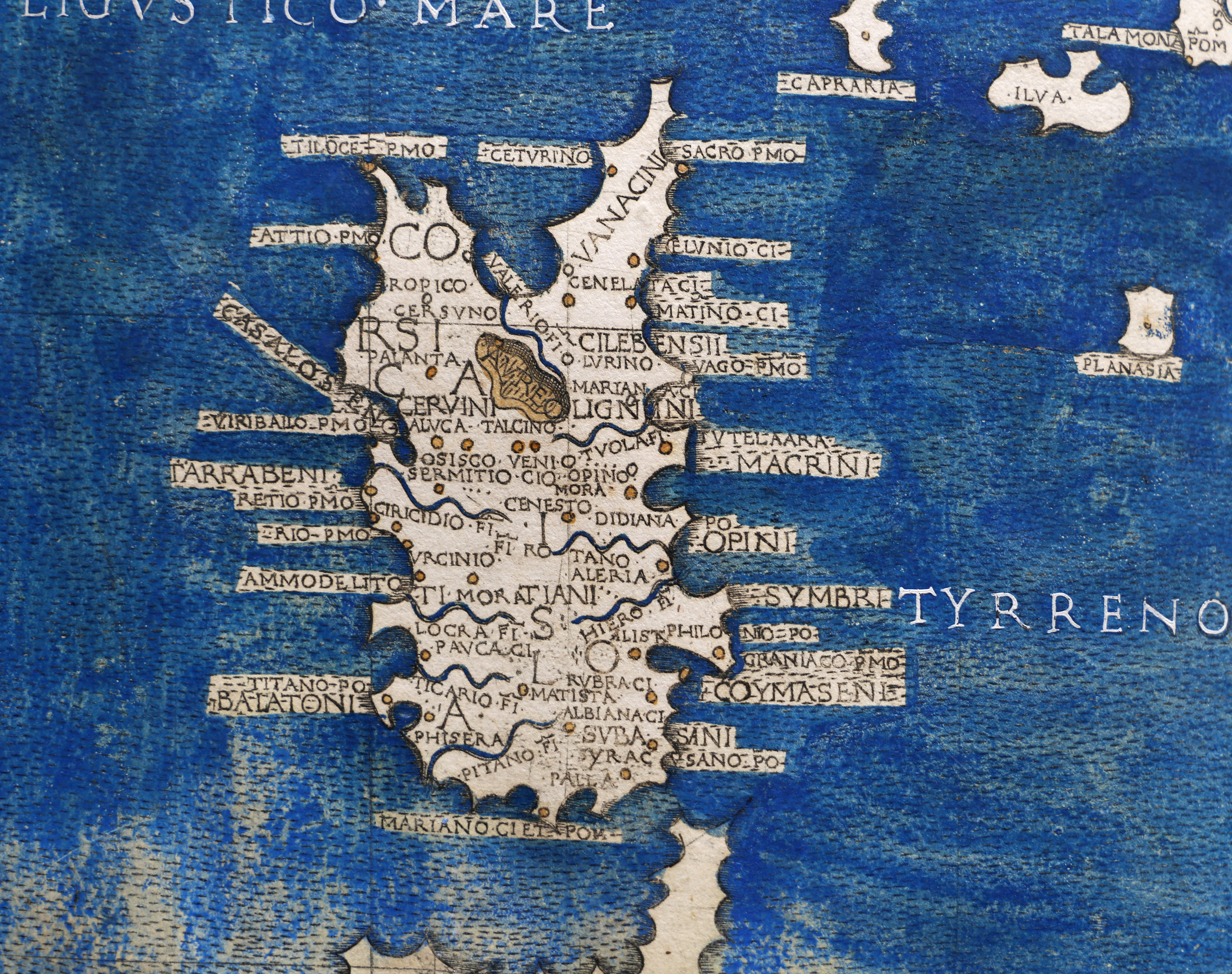 Geographia by Francesco Berlinghieri (Crusca)